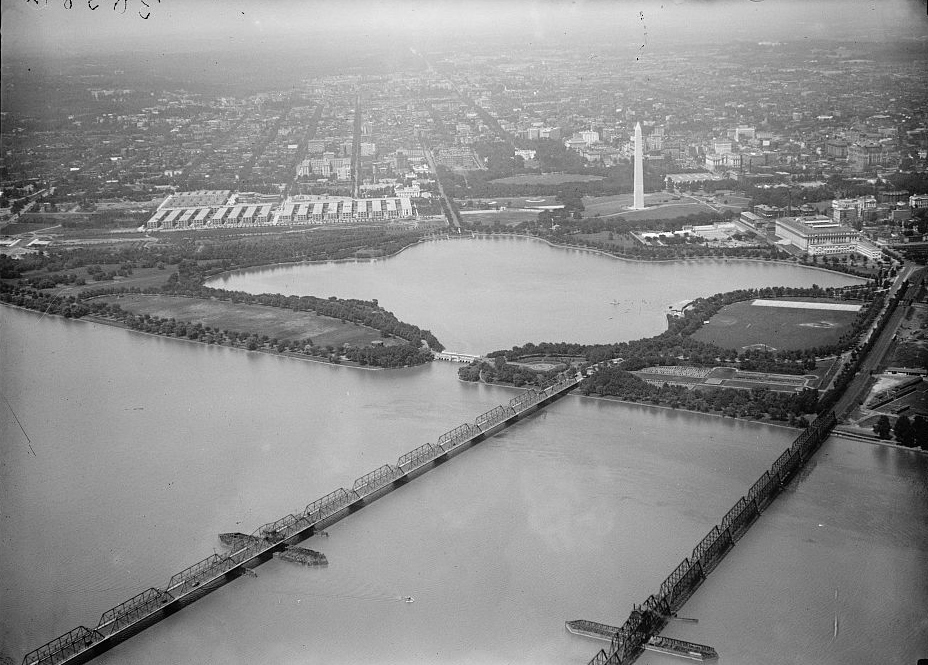 LONG BRIDGE. AIRPLANE VIEW OF, WITH TIDAL BASIN, MONUMENT, ETC.